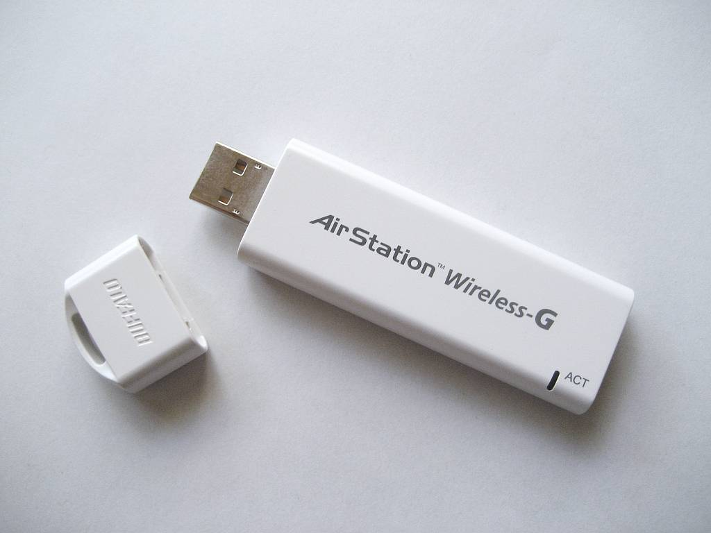 Buffalo WLI-U2-KG54L is a wireless LAN adapter.